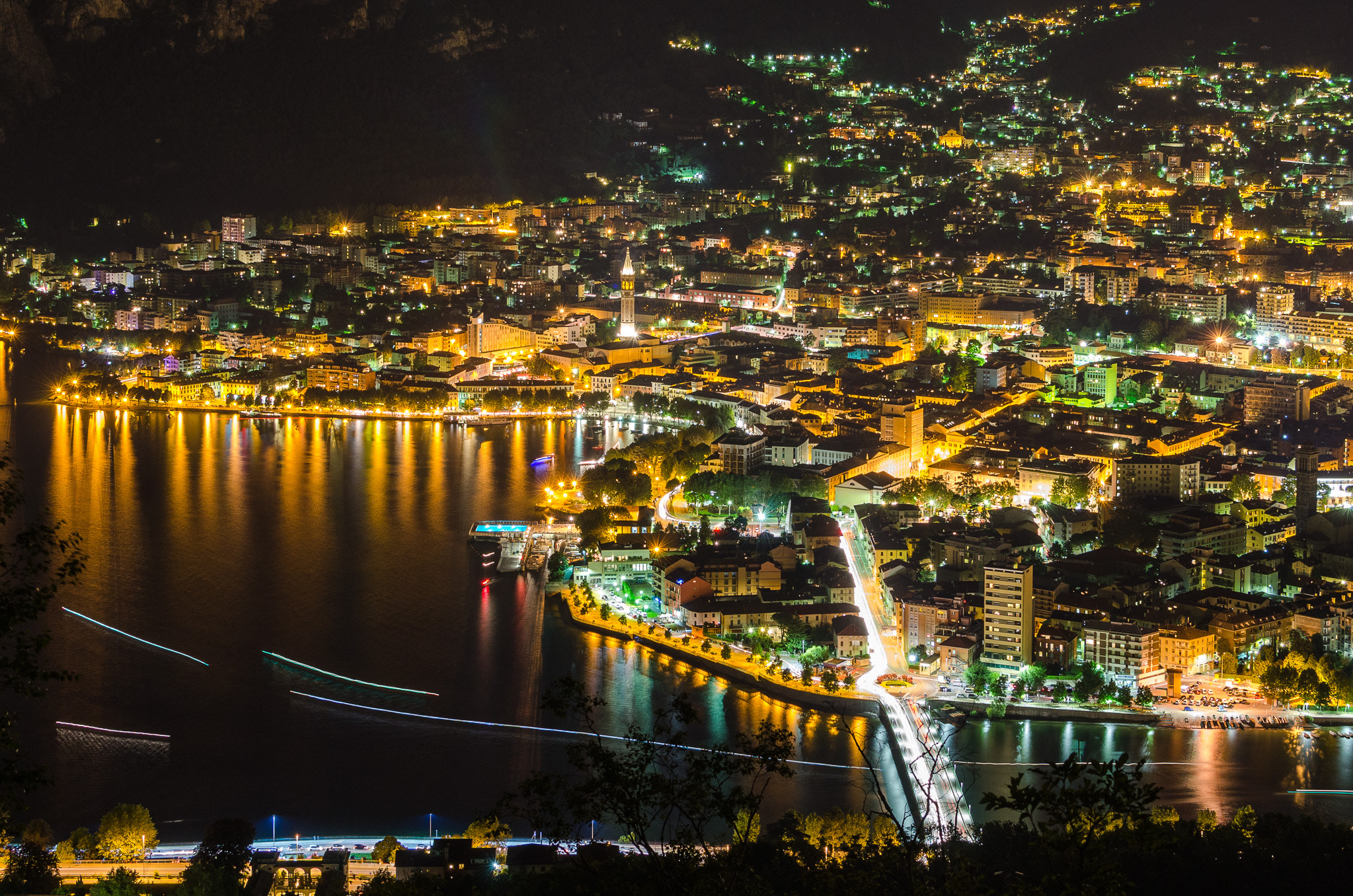 500px provided description: Lecco [#lake ,#night ,#Italy ,#Lecco ,#Lake Como]